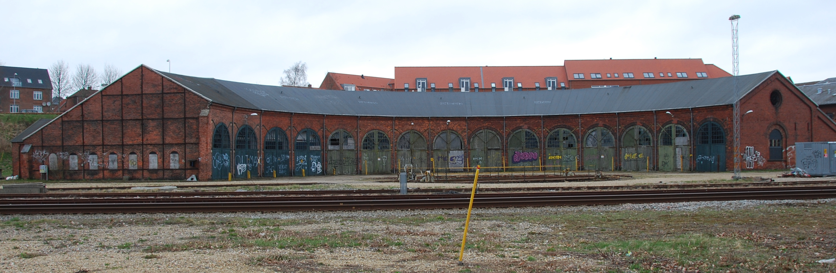 The listed railway depot "Remisen" in Viborg, Denmark. Build in 1889 and designed by architect Niels Peter Christian Holsøe